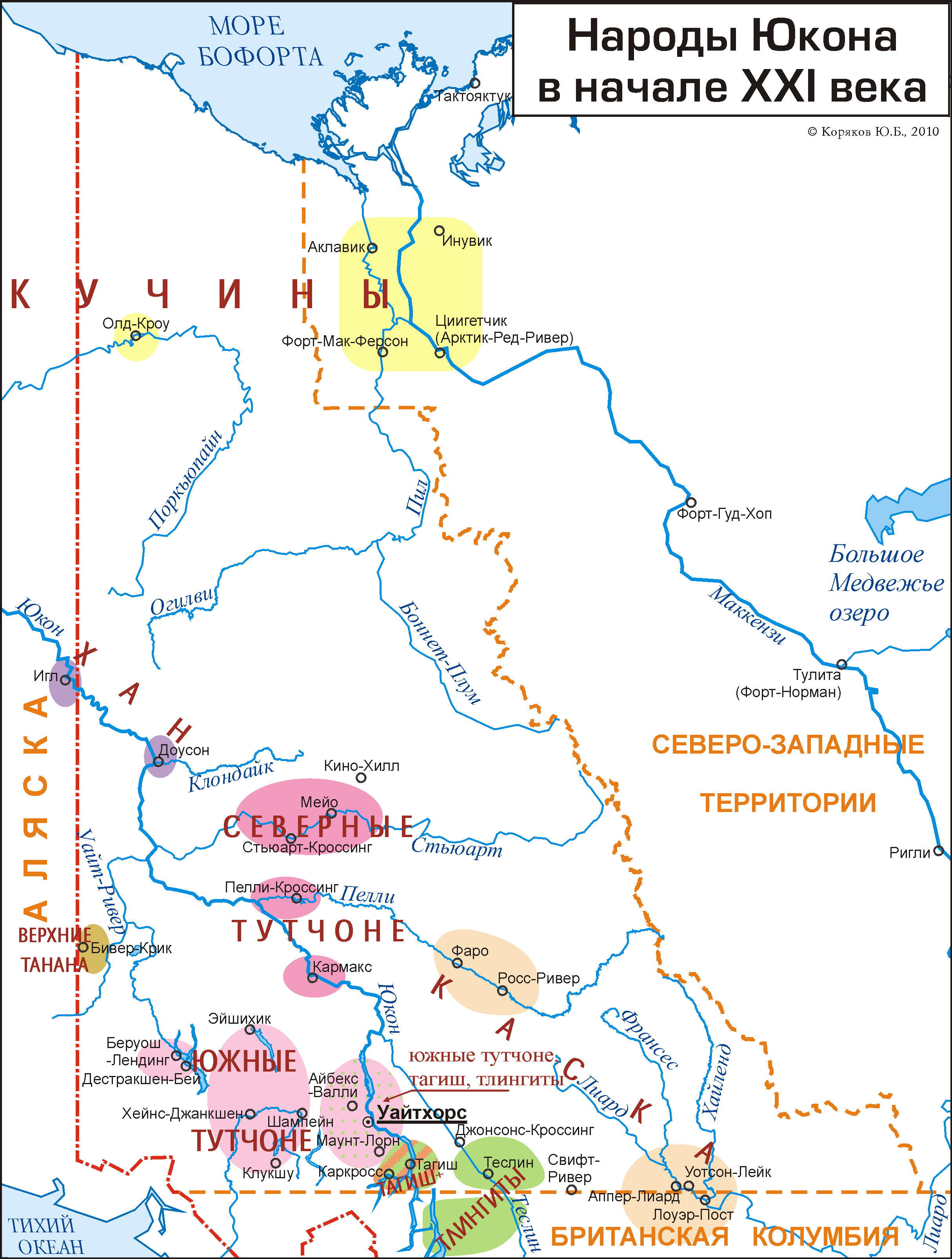 Aboriginal ethnic groups of Yukon in early 21 c. In Russian.